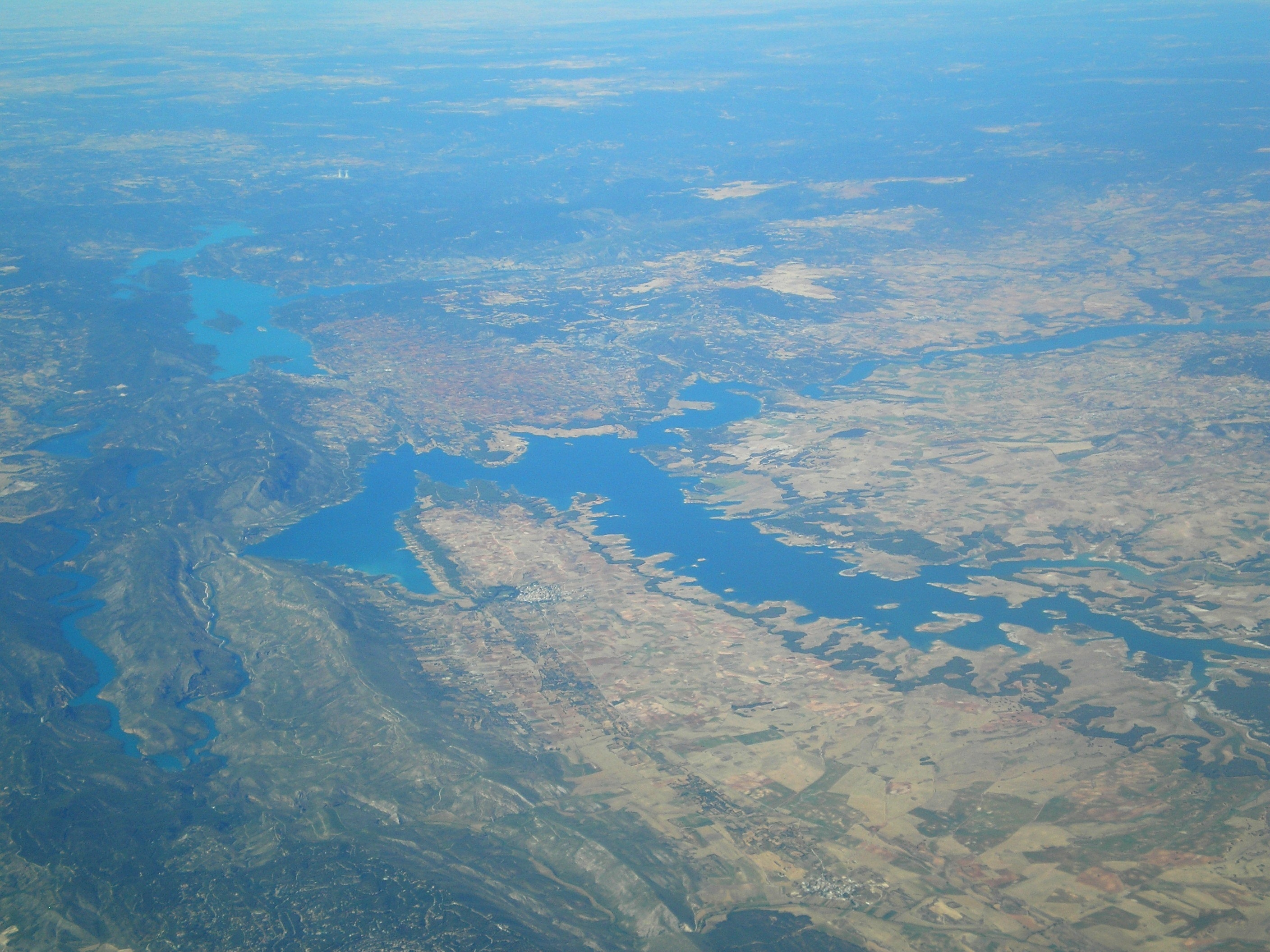 Entrepeñas and Buendía reservoirs in Castile-La Mancha, Spain.